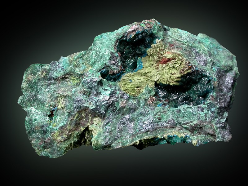 Demesmaekerite, Chalcomenite Locality: Musonoi Mine, Kolwezi, Western area, Katanga Copper Crescent, Katanga (Shaba), Democratic Republic of Congo (Zaïre) (Locality at ) Size: 4.3 x 2.3 x 2.5 cm. Here is a good specimen of the rare uranium selenite Demesmaekerite associated with blue Chalcomenite crystals. Musonoi is the type locality for Demesmaekerite (there are only 2 localities known). Chalcomenite is the rare copper selenite and is known from less than 30 localities worldwide, few in good crystals. Demesmaekerite is usually associated with the other uranium selenites and not often with Chalcomenite. These specimens where found during the removal of the uranium dump in the early 1990’s.